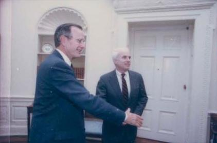 PRESIDENT BUSH SITS AT HIS DESK AND CONFERS WITH FRED MCCLURE, ANDY CARD AND ROB PORTMAN, WHO REMAIN STANDING. THE PRESIDENT TALKS ON THE TELEPHONE. PRESIDENT BUSH SIGNS THE USO ANNIVERSARY COMMEMORATIVE COIN ACT. SEN. JOHN MCCAIN, REP. TOM RIDGE AND CHAPMAN COX ARE PRESENT.